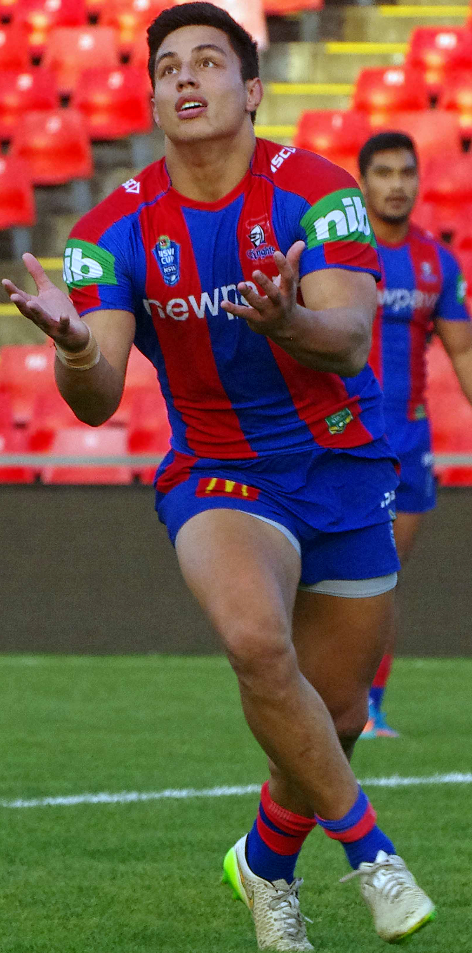 Joseph Tapine